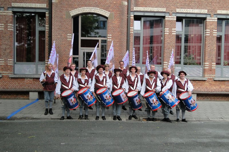 Vendelzwaaien